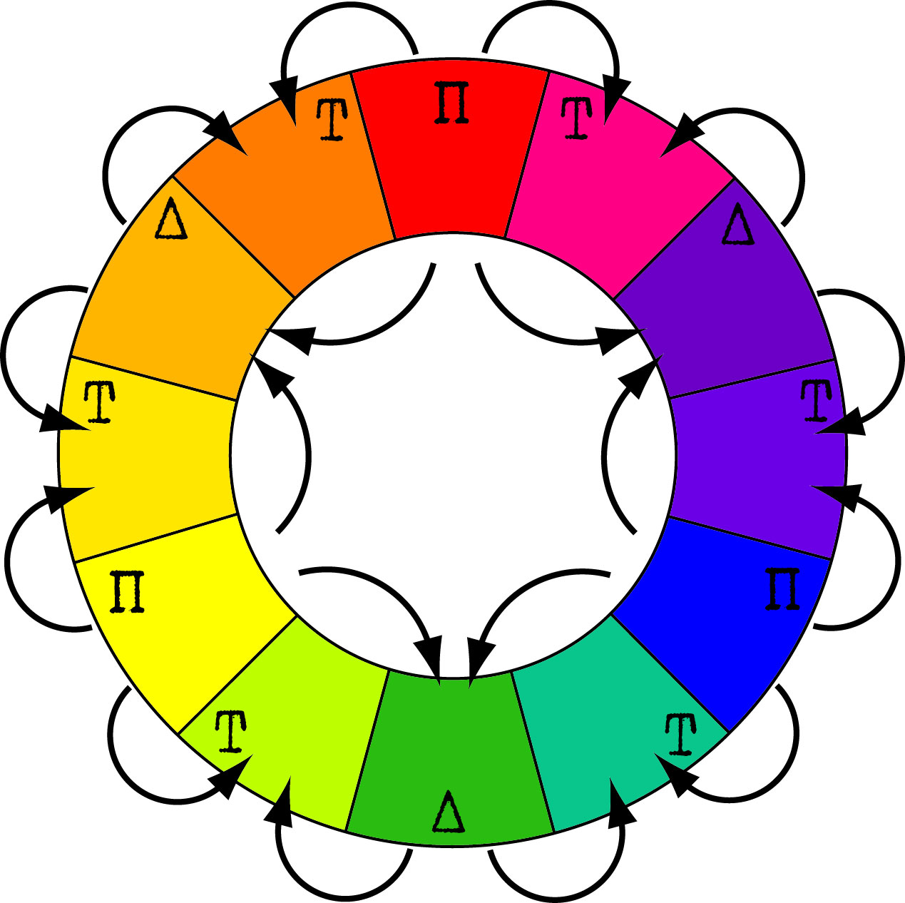 RYB color wheel